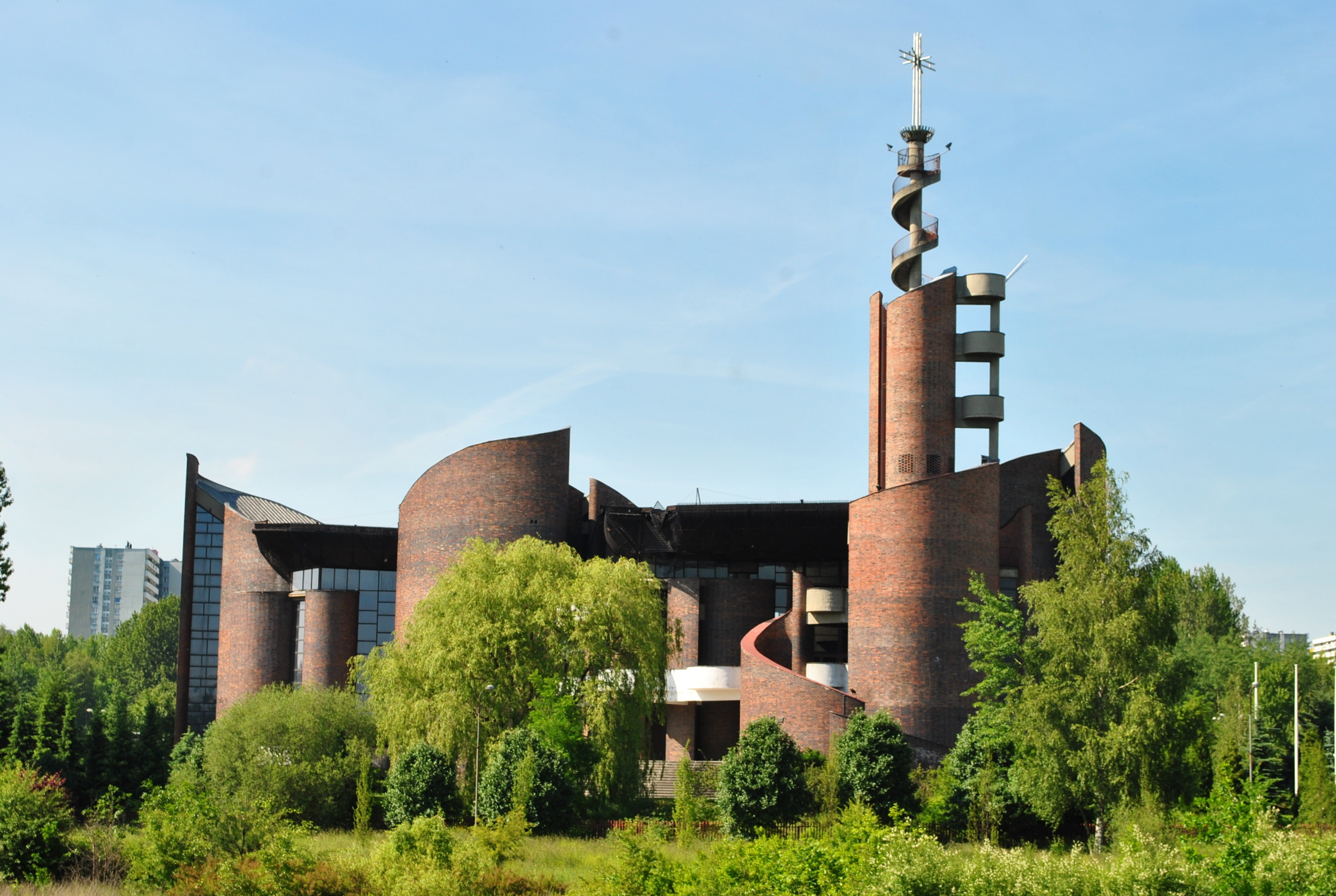 Church of the Exaltation of the Holy Cross and Our Lady of Health of the Sick in Katowice. View from the parking lot at Auchan